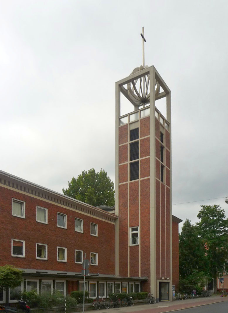 Zions-Church in Bremen-Neustadt